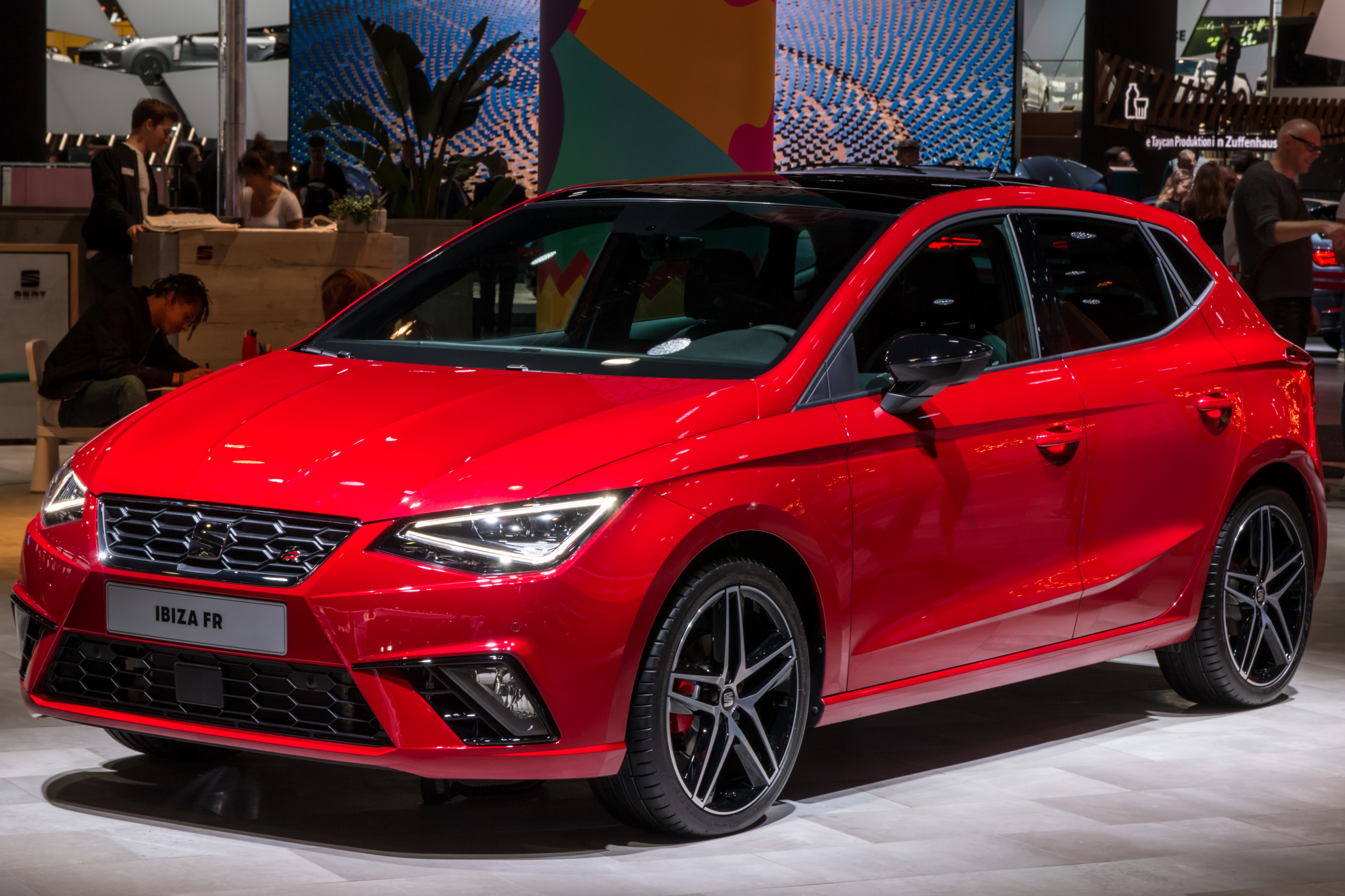 Seat Ibiza FR